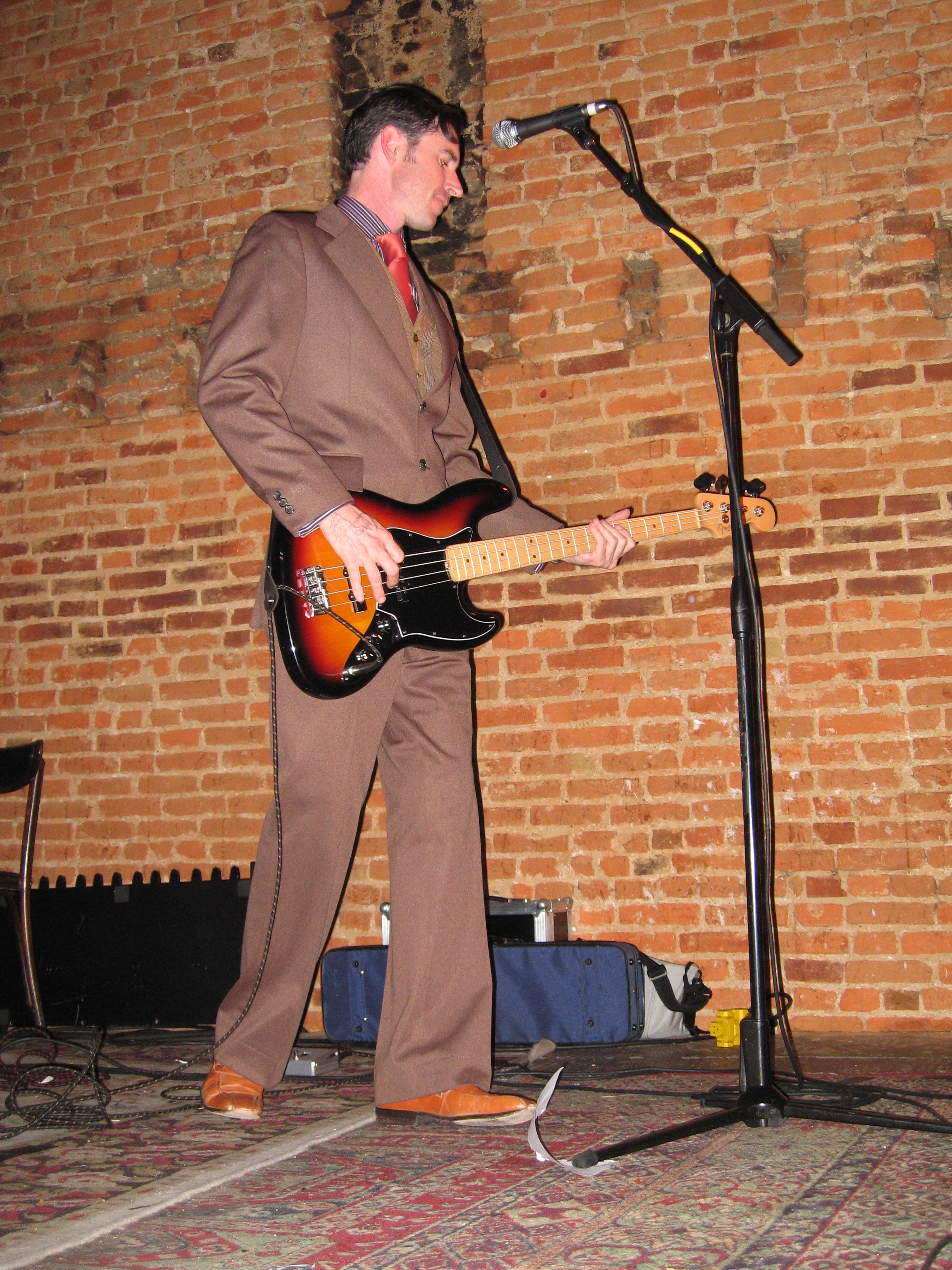 Peter Hughes, bass player of The Mountain Goats, plays at the North Star Bar in Philadelphia